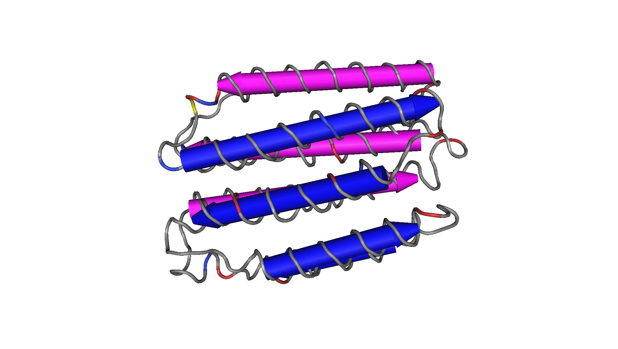 MMDB_ID_94860_PDB_ID_2L6X_Proteorhodopsin